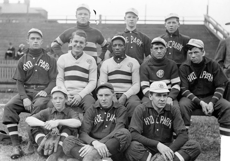 Hyde Park High School (Preparatory School) baseball team, eleven members, wearing uniforms, sitting in three rows outdoors on the field in Chicago, Illinois. Samuel "Sam" Ransom, an African American player, is sitting in the middle of the team. This photonegative taken by a Chicago Daily News photographer may have been published in the newspaper. Cited as: SDN-001546, Chicago Daily News negatives collection, Chicago History Museum. The Library of Congress and Chicago History Museum post the date of the picture as 1903, however fellow teammate and future writer for the Chicago Tribune, Walter Eckersall, writes in 1918 that the two attended high school together at Hyde Park from 1899 to 1902. So I believe the picture is 1902.